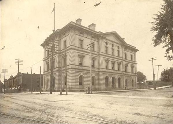 Columbia City Hall in Columbia, South Carolina in 1900. It served as the Federal Courthouse from 1874 to 1936.